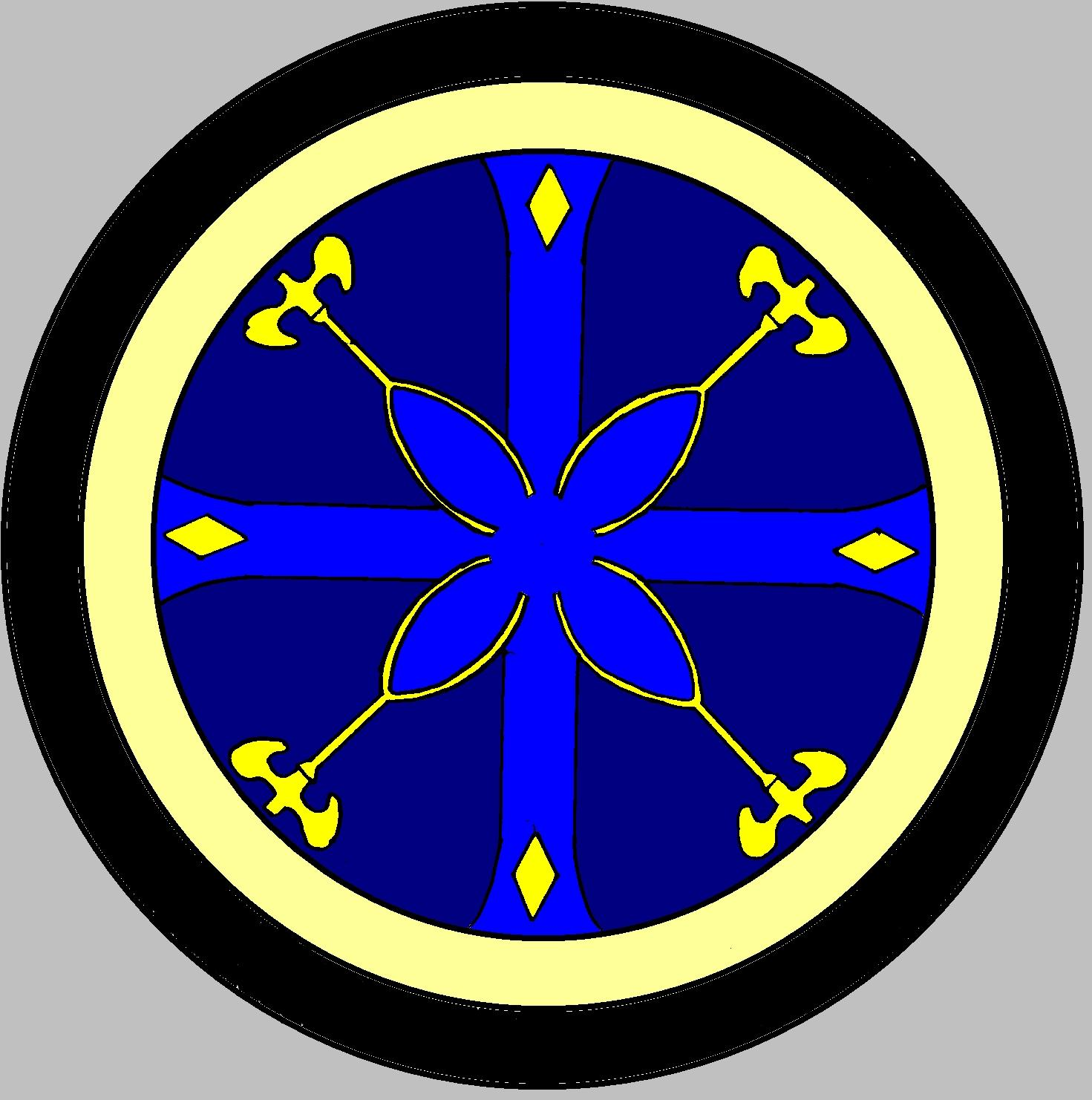 Schematic of the cross painted in the nave contained on the north pier to the east in the church of Saint-Germain-sur-Ay